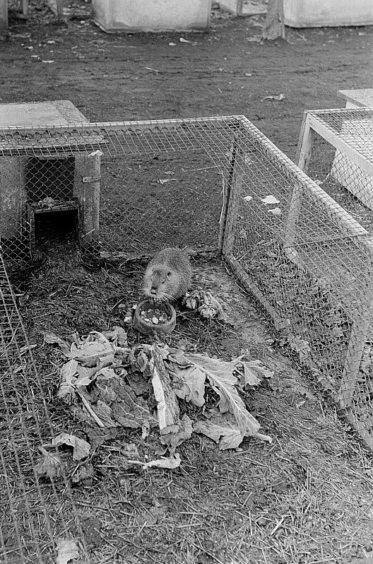 Original image description from the Deutsche Fotothek Nutriakäfig